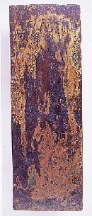 Bronze epitaph of Ishikawa no Toshitari (金銅石川年足墓誌, kondō ishikawa no toshitari boshi). Bronze epitaph of the aristocrat Toshitari Ishikawa (29.6 cm x 10.3 cm x 0.3 cm) with a six line, 130 character inscription and gold plating. Nara period, December 28, 762. Excavated in Tsukimi (月見町, tsukimi-chō), Takatsuki, Osaka, Osaka. Located at Osaka Museum of History, Osaka, privately owned.